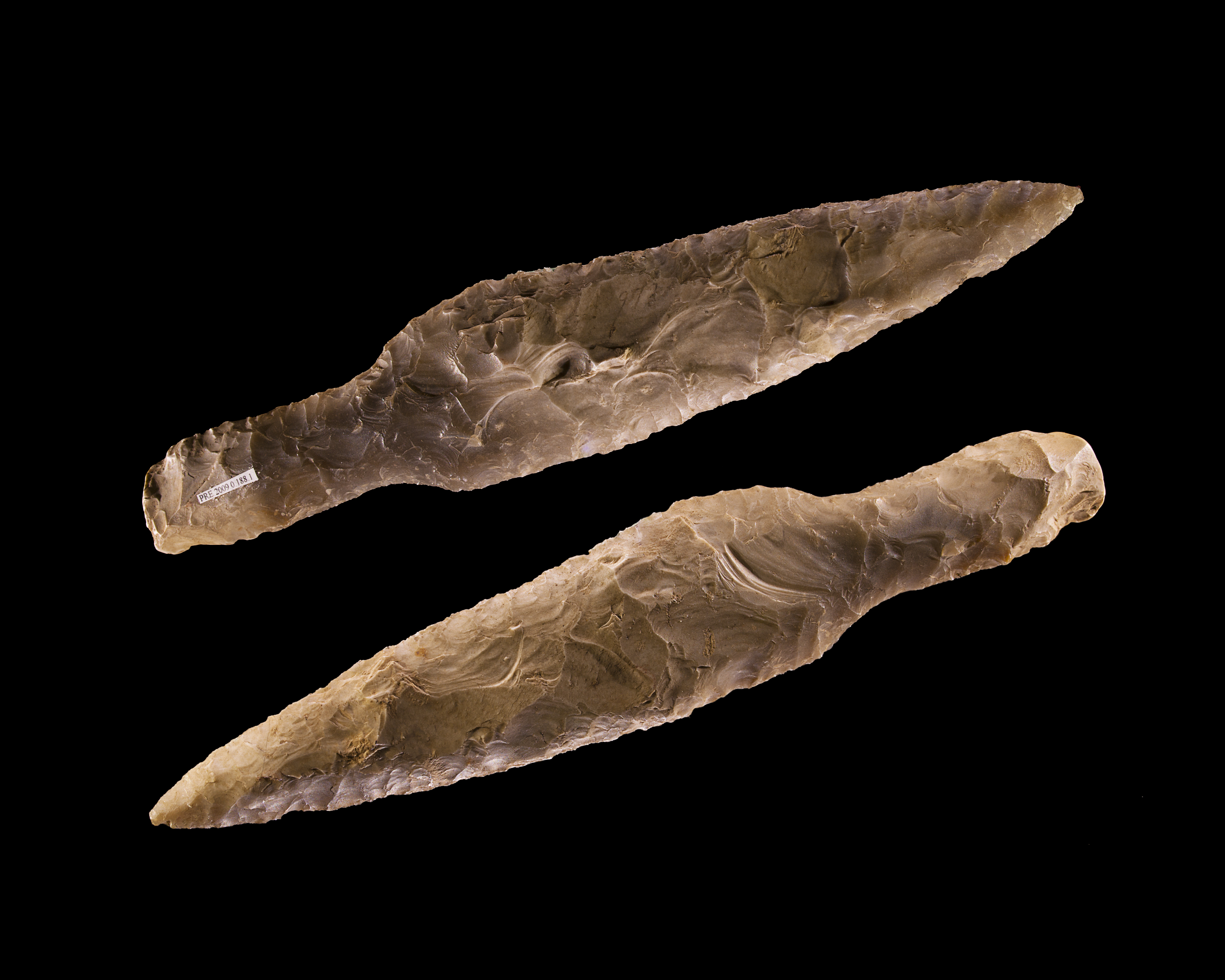 Upper Neolithic flint dagger